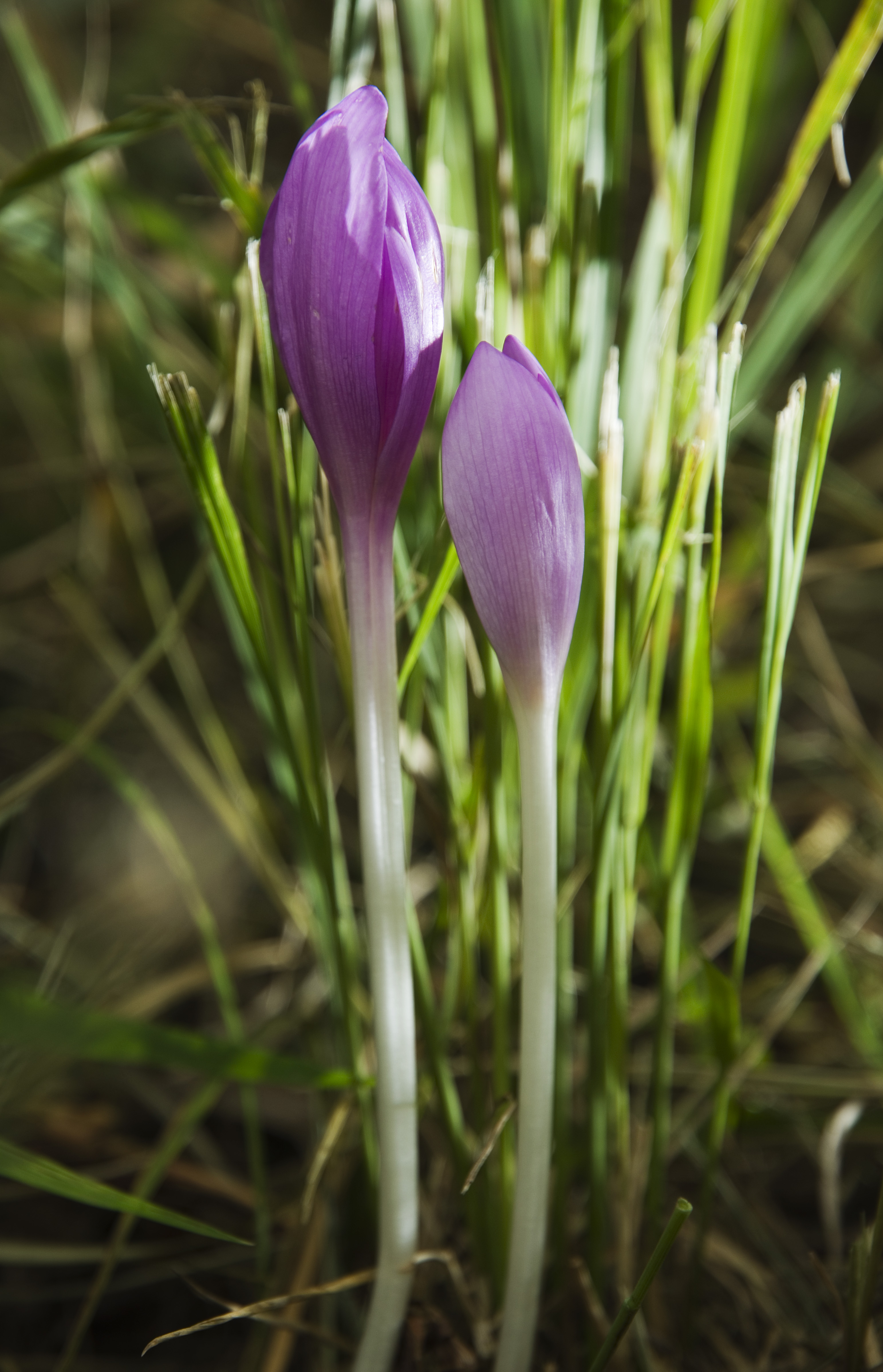 Autumn crocus (Colchicum autumnale)